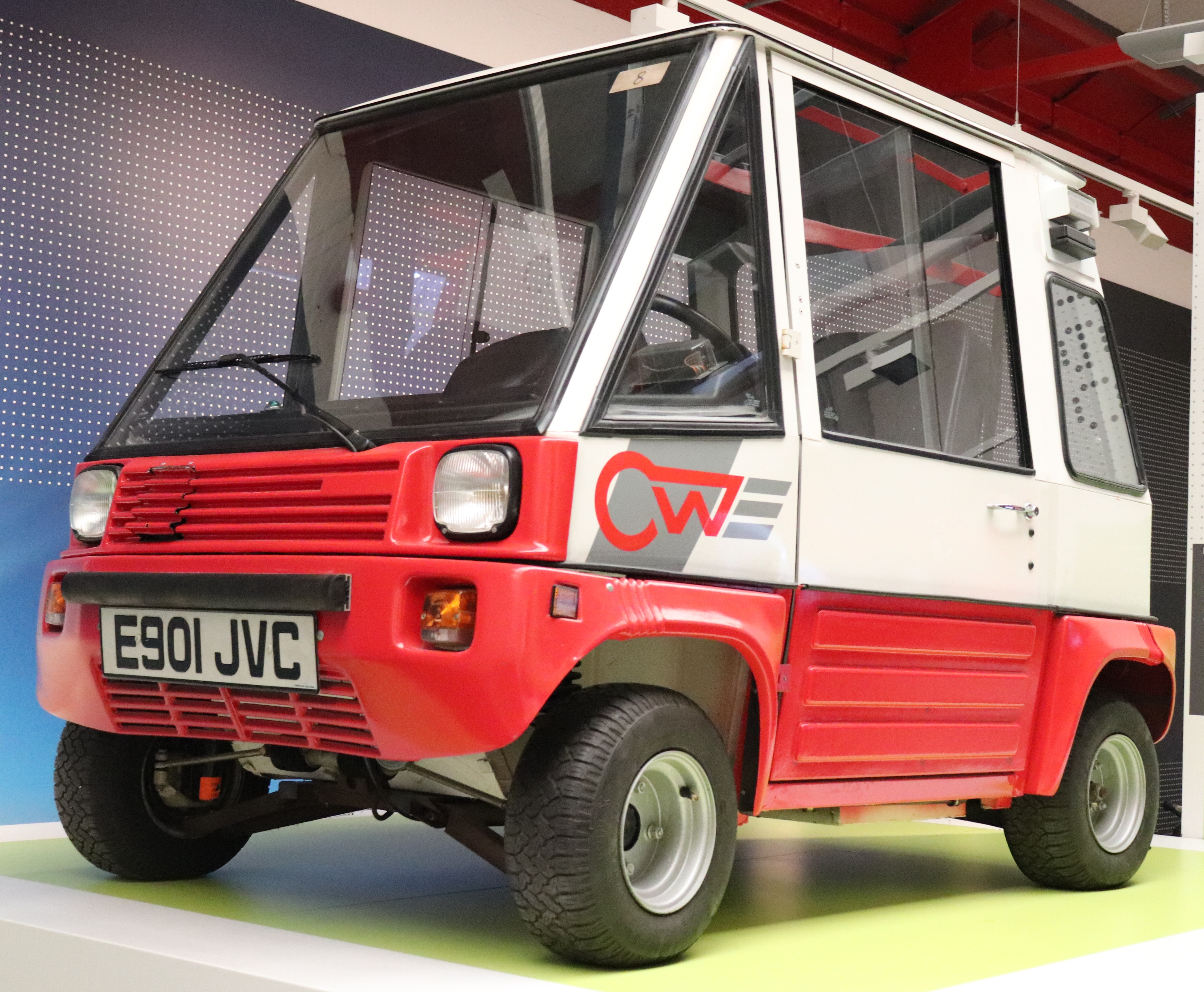 1987 Liger JS6 City Wheels Prototype Taken in the Coventry Transport Museum